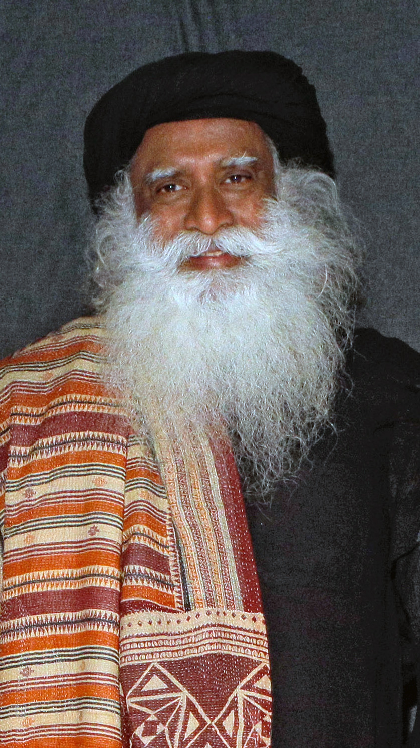 Sadhguru Jaggi Vasudev, February 2019